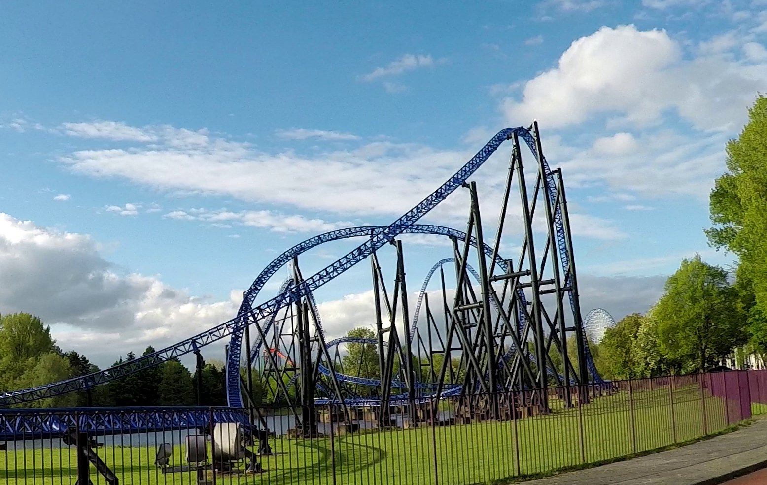 Goliath at Walibi Holland